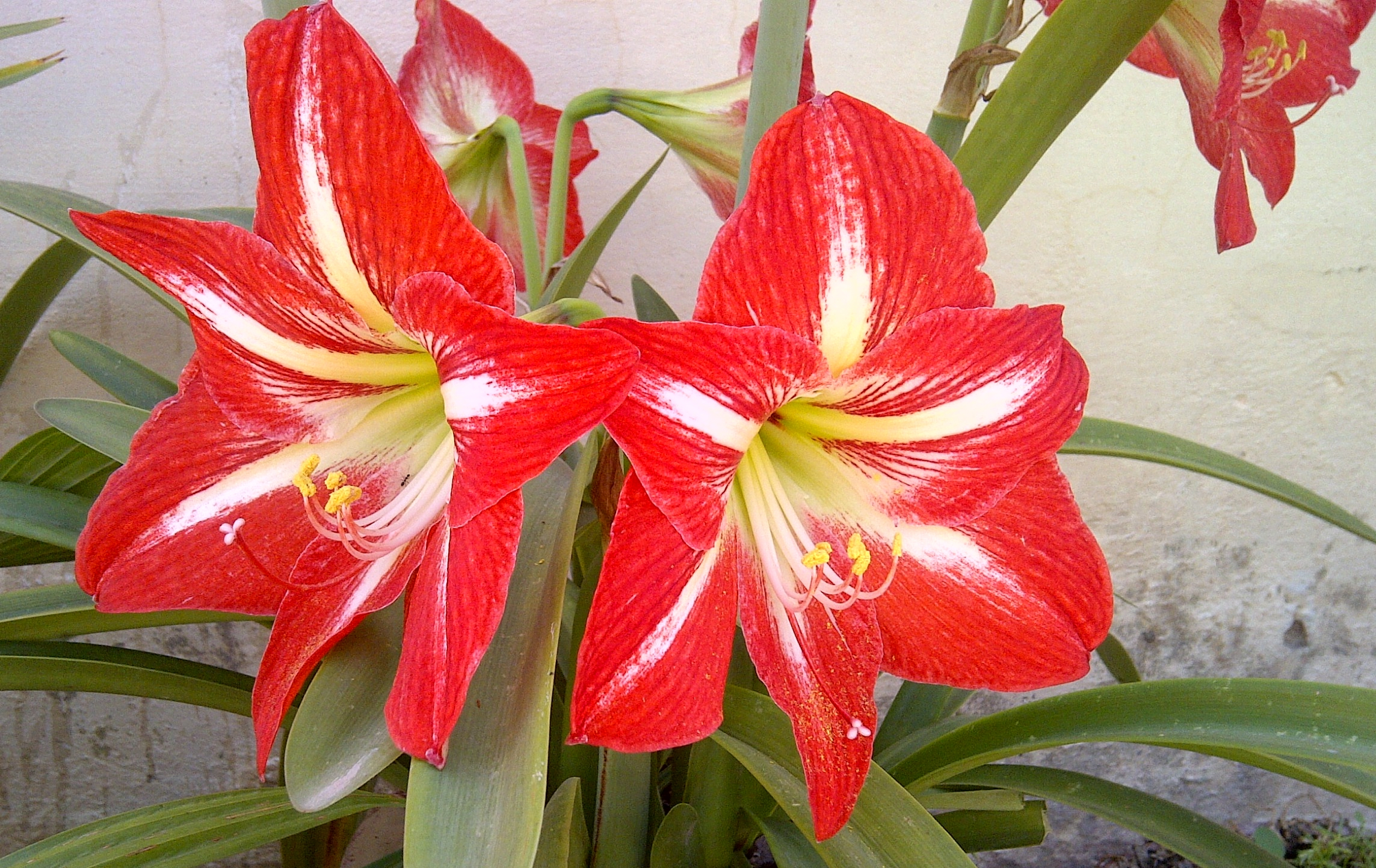 Hippeastrum cultivar.